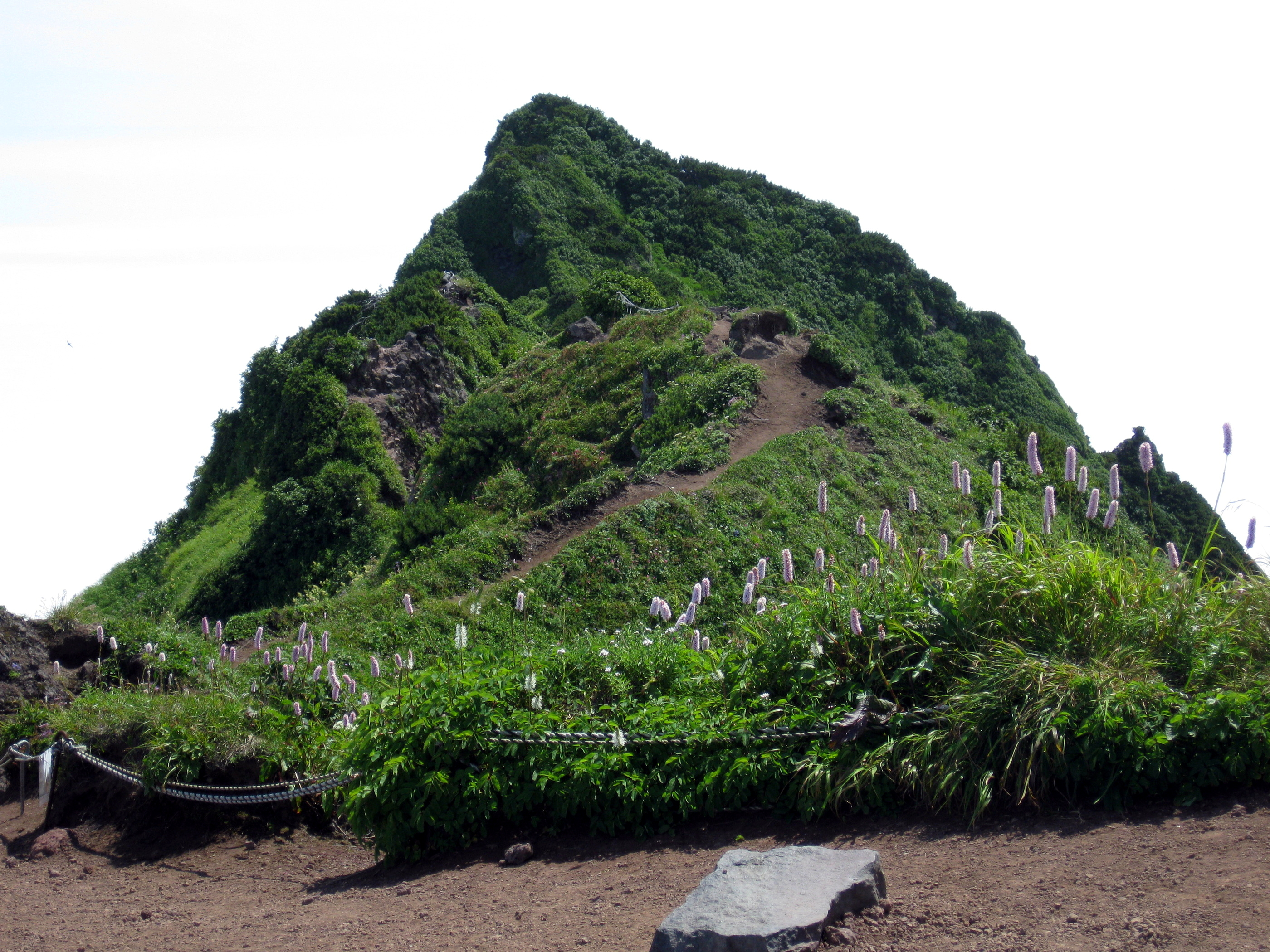 Japan: summit of mount Rishiri (Hokkaidō).